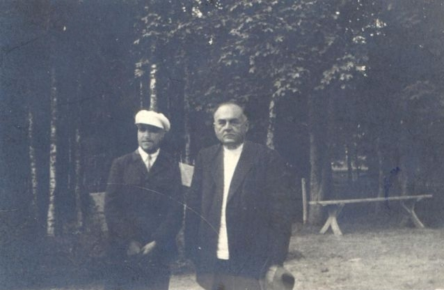 Salman Mumtaz and Habib Samedzade Watermark from image: Fotobank